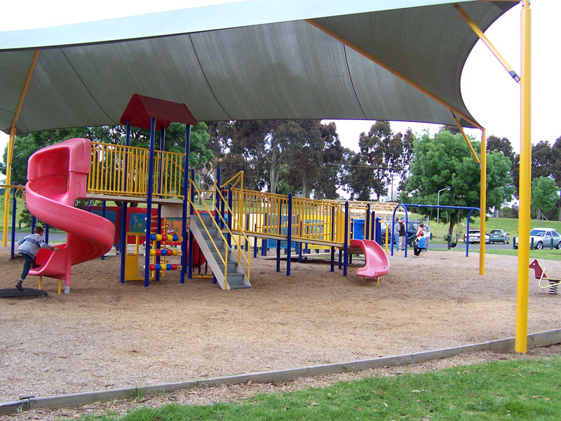 A Children's Playground